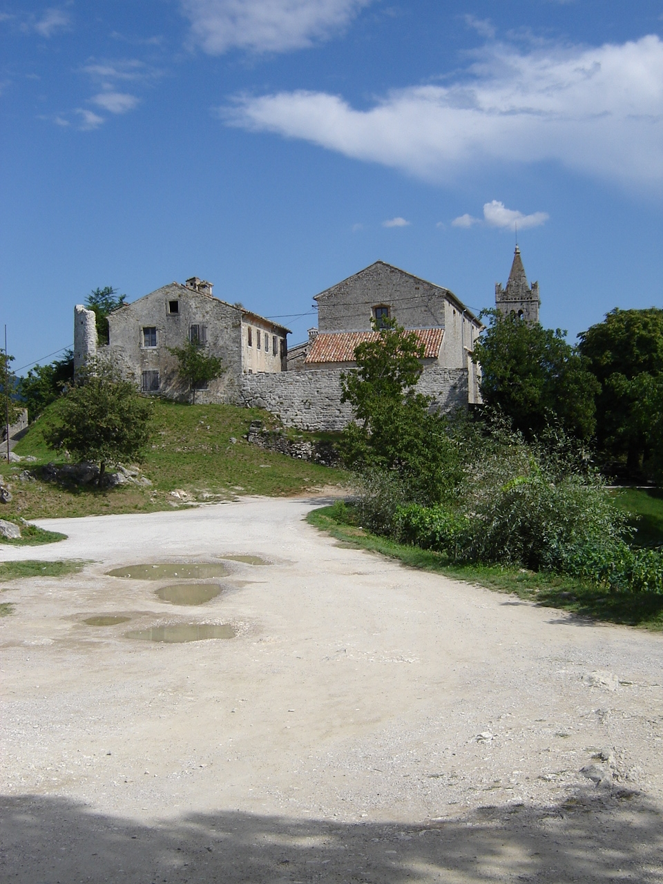 Hum - the smallest town in the world. Hum - najmniejsze miasto na świecie. Hum, Istria, Croatia Author: Michał Kasprzyk 13.08.2005.